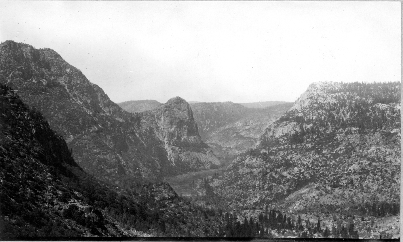 Yosemite National Park, California. Down the Grand Canyon of the Tuolumne River and Hetch Hetchy Valley in the distance. Kolana Rock in the center.